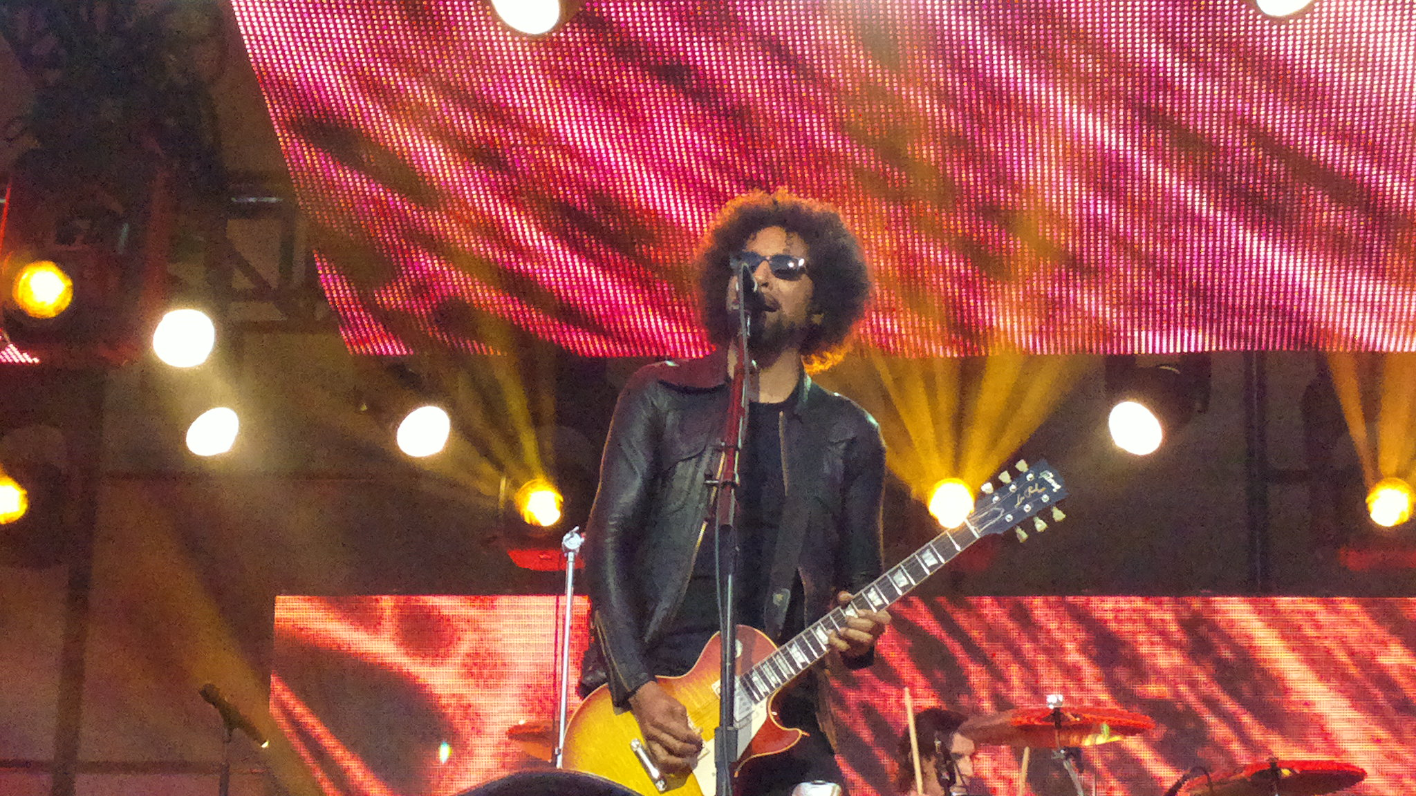 William DuVall live at the Jimmy Kimmel Live!